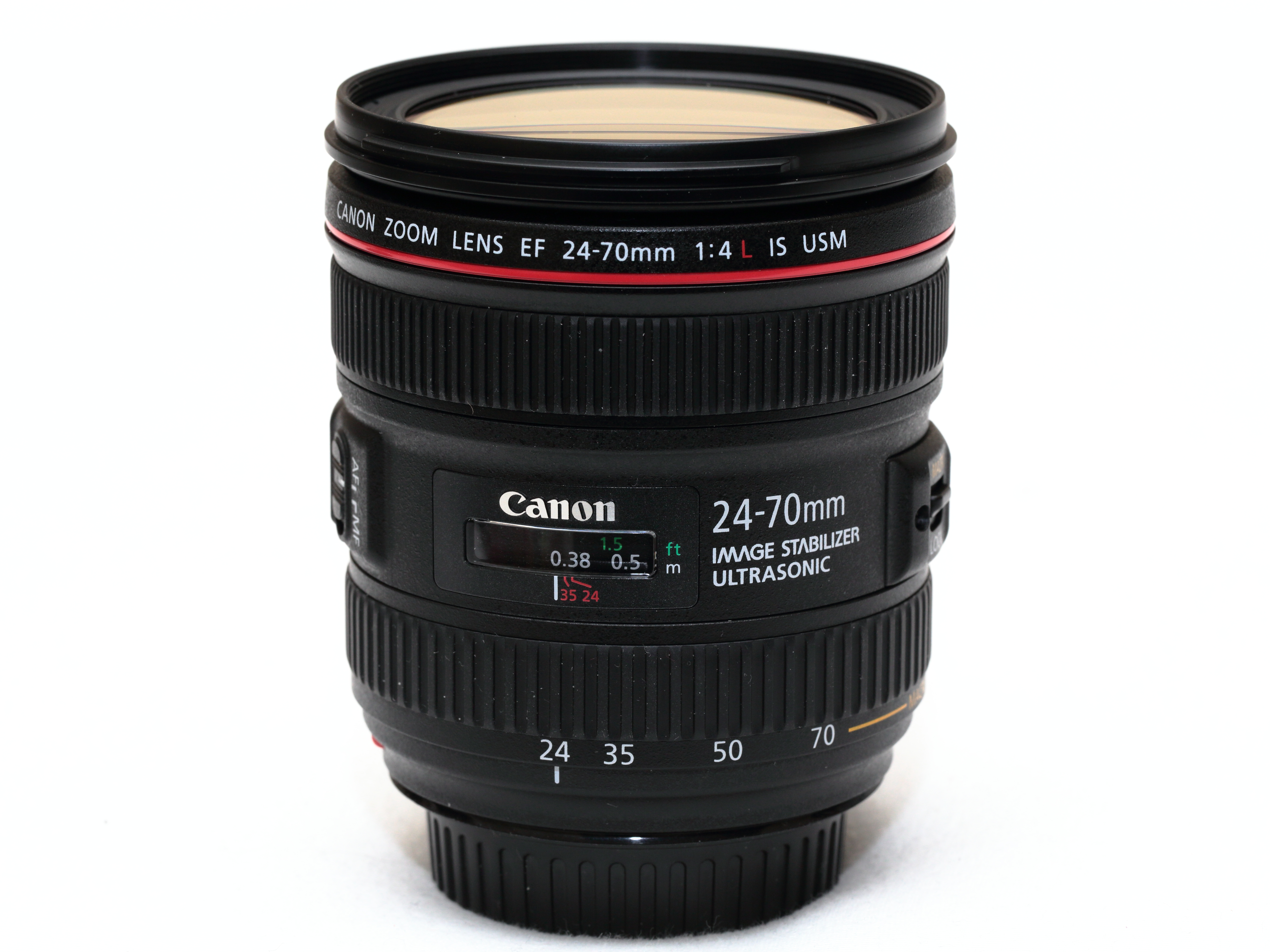 Canon EF 24-70mm f/4 L IS USM photographic lens.